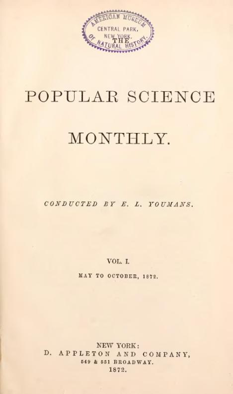 Scanned soft cover of The Popular Science Monthly Volume 1